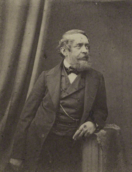 Portrait of Lajos Kossuth